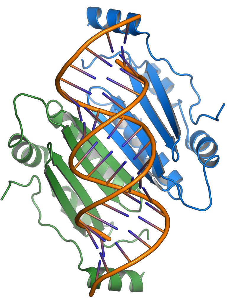 The RNA silencing suppressor p19 from the tomato bushy stunt virus, rendered from PDB ID 1R9F. The protein forms a dimer whose two monomers are shown in blue and green. The dimer forms an interaction surface that binds double-stranded RNAs of 19 to 21 base pairs. Plants use RNA silencing as a defense mechanism against viruses; the p19 protein serves as a viral counter-defense that specifically binds siRNAs and suppresses the silencing machinery. Keqiong Ye, Lucy Malinina & Dinshaw J. Patel. Recognition of small interfering RNA by a viral suppressor of RNA silencing. Nature 426, 874-878 (18 December 2003).